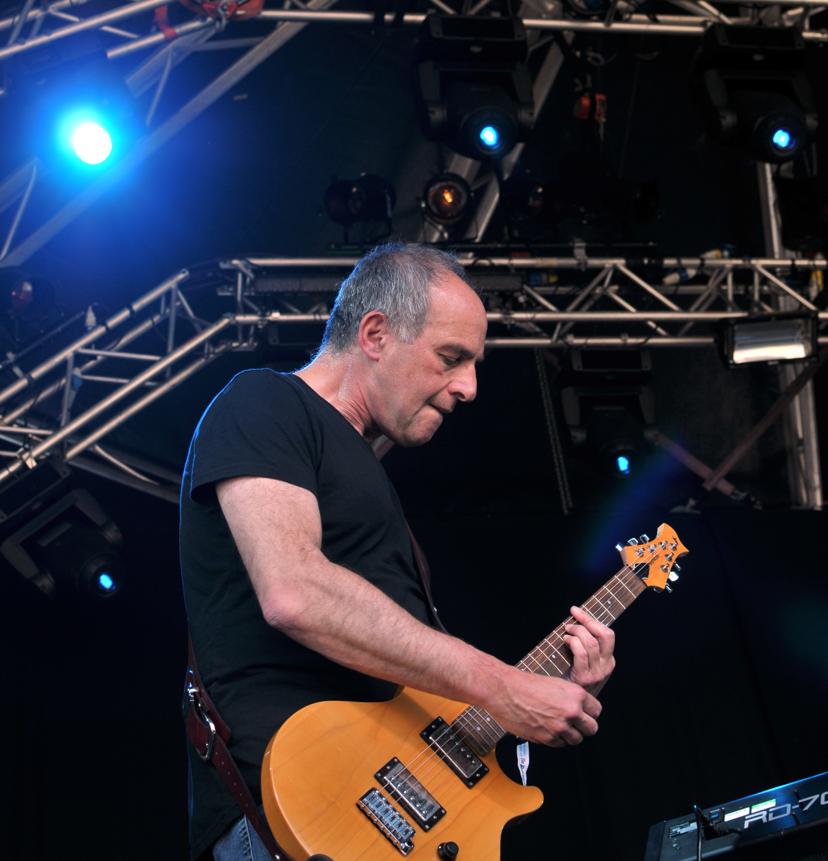 Photo of Loyd Grossman at Belladrum Music Festival Scotland 2009. Shown playing the guitar. Photo by photojournalist Aaron Sneddon. Creative commons attribution required to Aaron Sneddon.